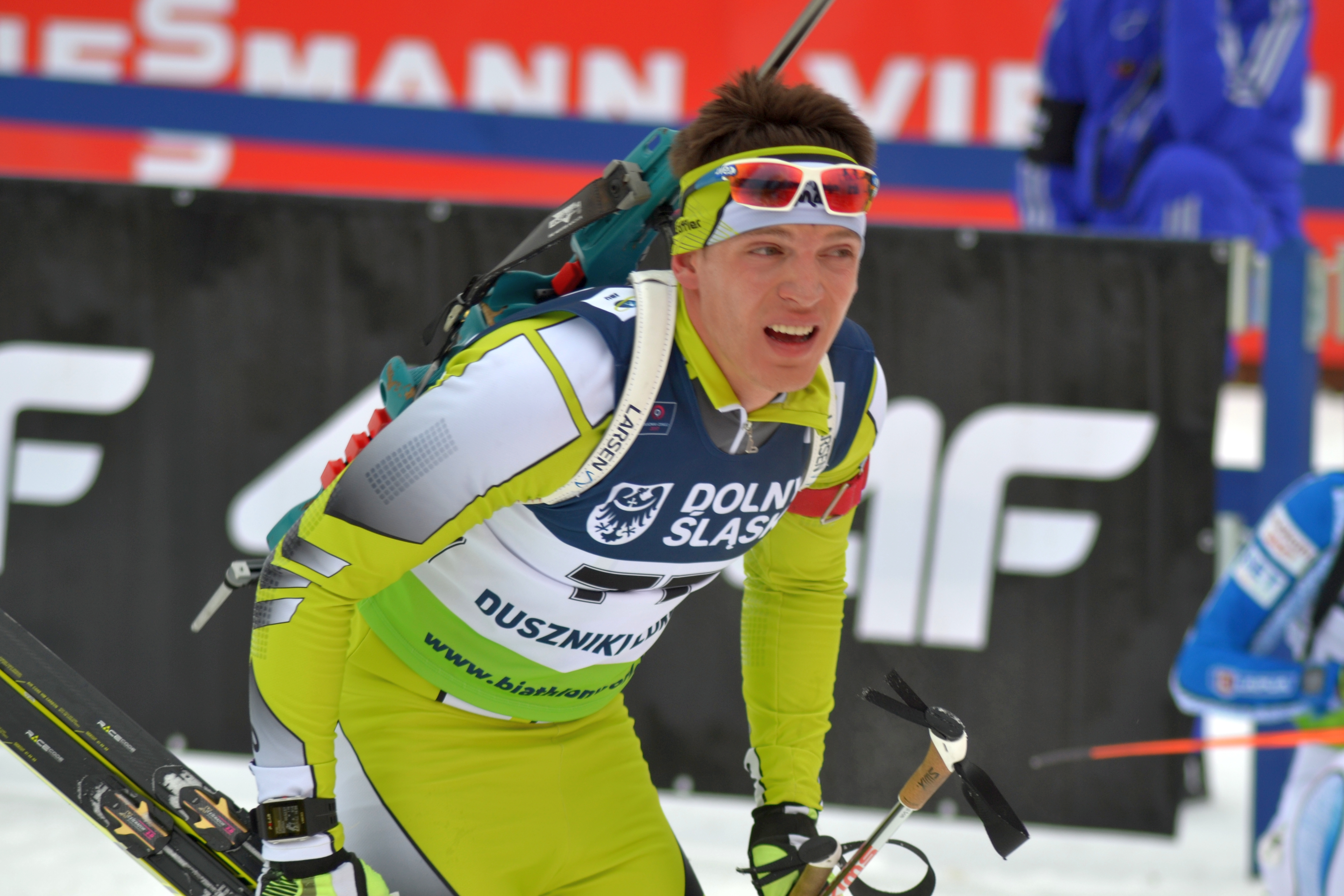 Open European Championships Biathlon 2017, Individual Men's race, held on January 25th.